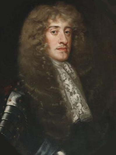 Portrait of James II of England (1633-1701)